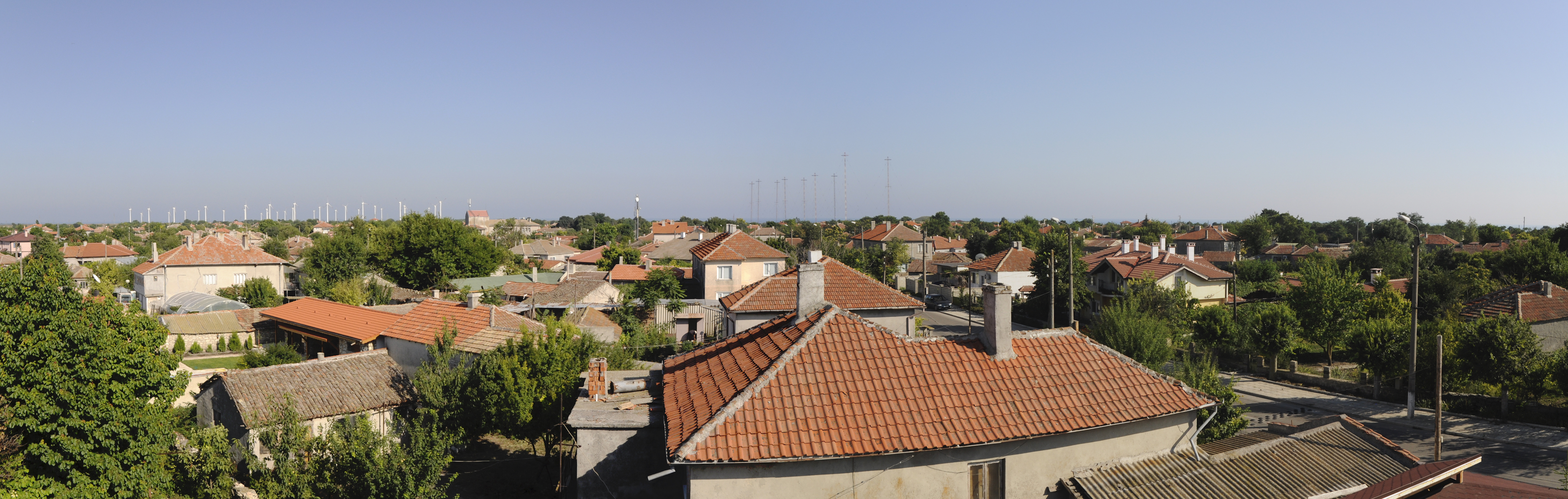 Panoramic view of Balgarevo village, Kavarna Municipality, Bulgaria.